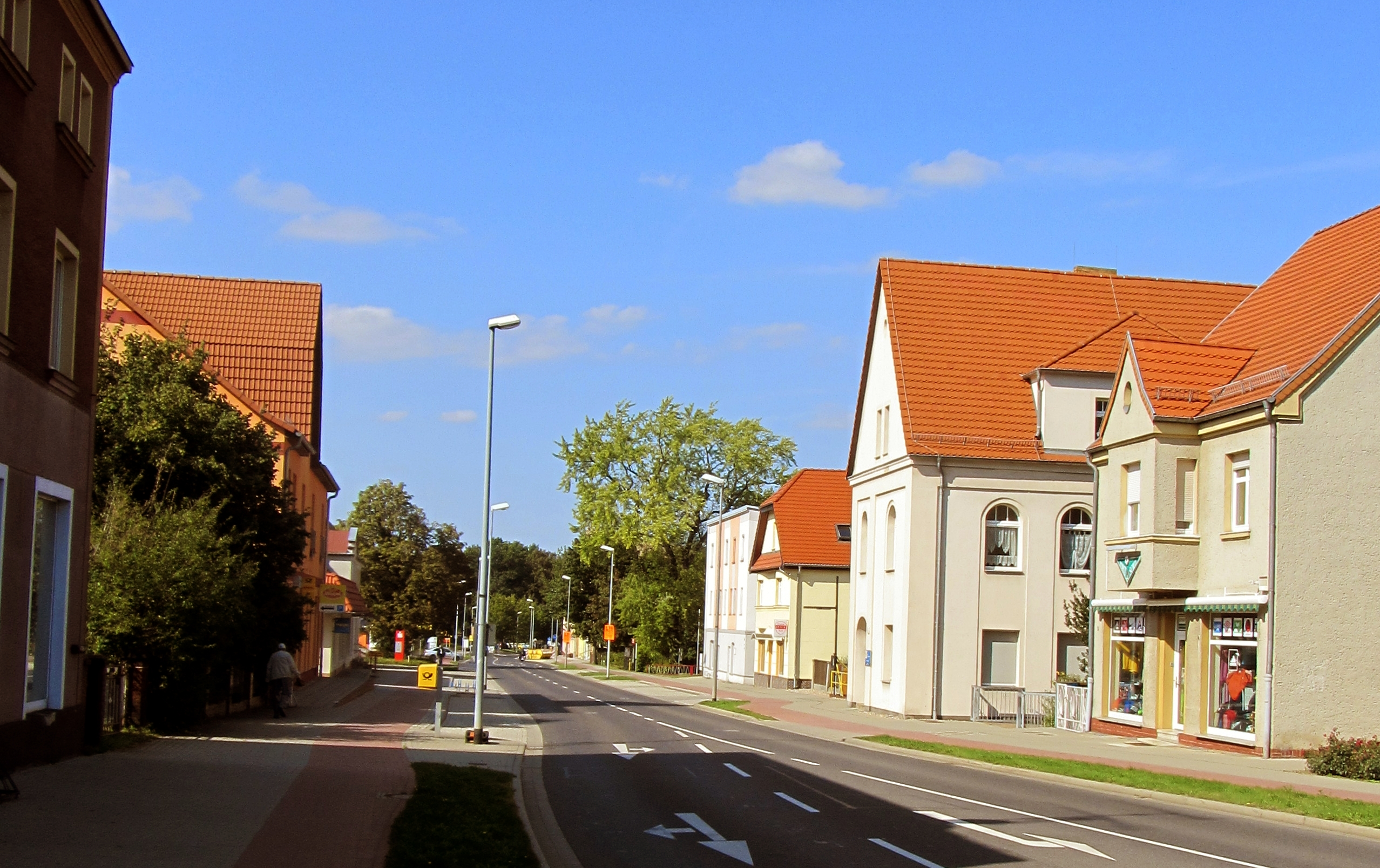 View of Döbern, Forster Strasse.